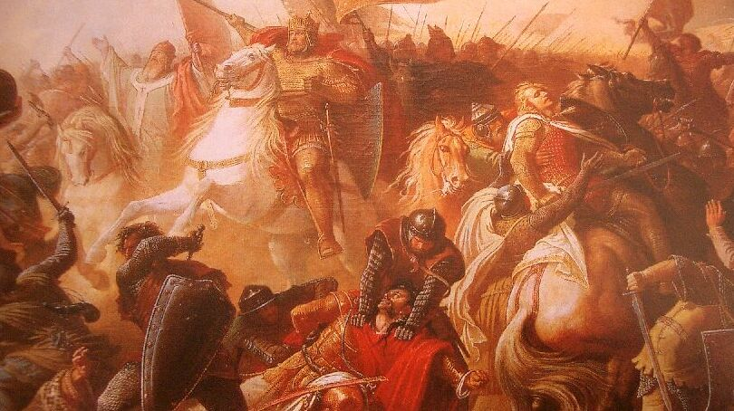 Extract from the painting "Die Ungarnschlacht auf dem Lechfeld 955" (english; The Hungarian Battle on Lechfeld 955) by Michael Echter (1812-1879). The original is in the Maximilianeum Foundation in Munich (Bavarian, Germany).